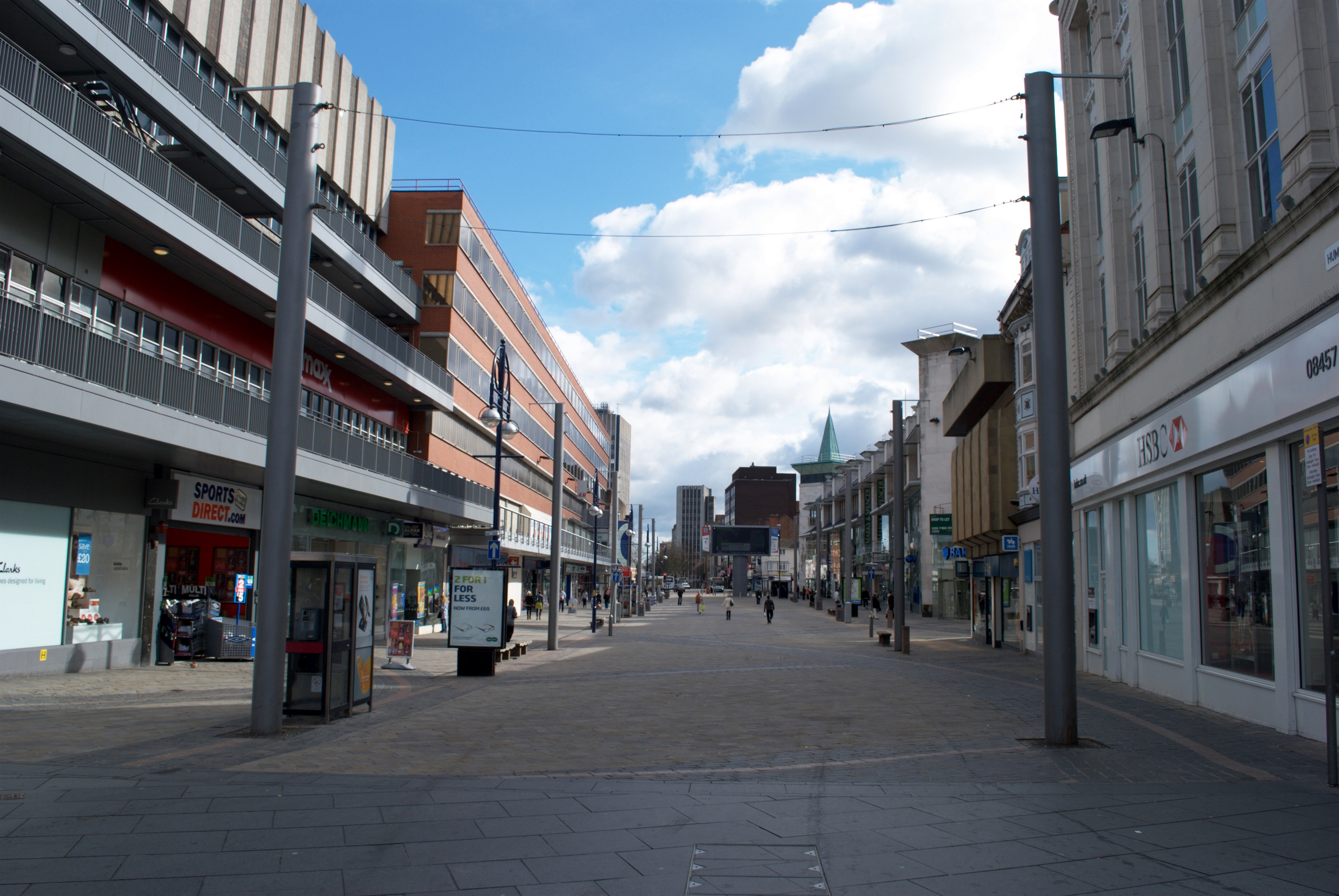 Humberstone Gate in central Leicester